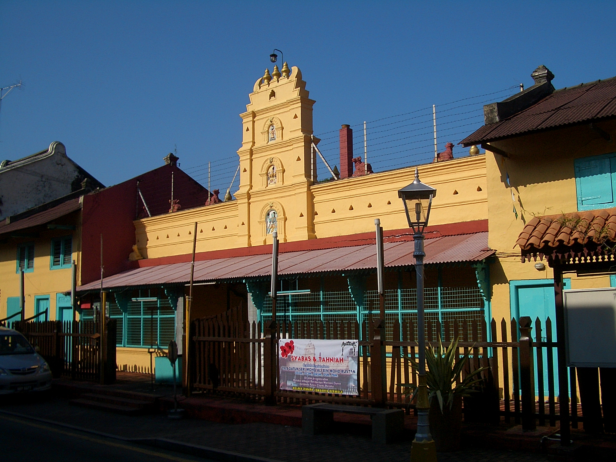 Sri Poyyatha Vinayagar Moorthi Temple, in Melaka's Jln. Tokong